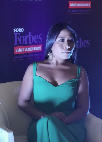 Yalitza Aparicio Martínez at the 2019 Forbes Forum, Costa Rica, 2019.